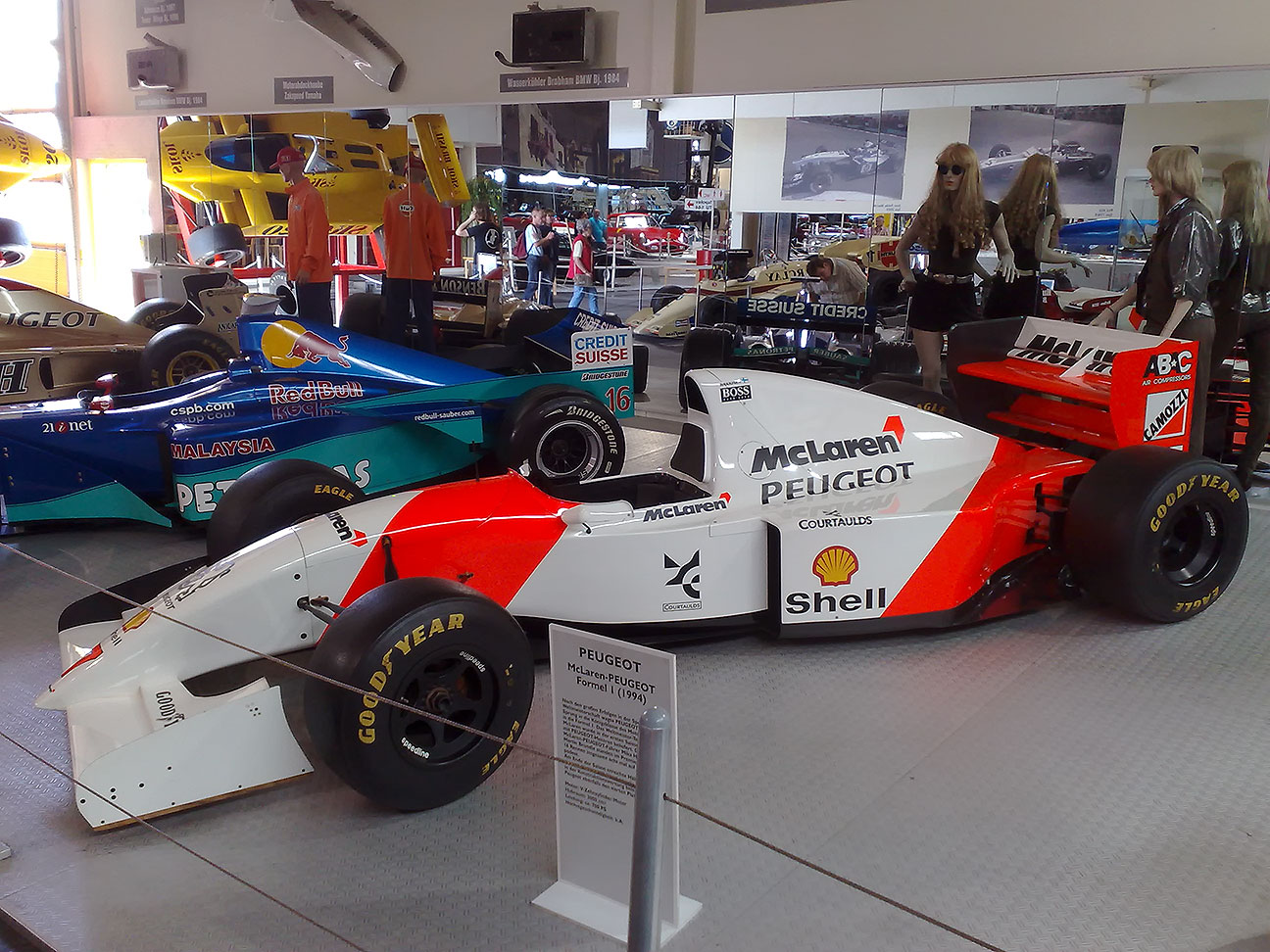 McLaren Peugeot MP4/9 at Auto- und Technikmuseum Sinsheim